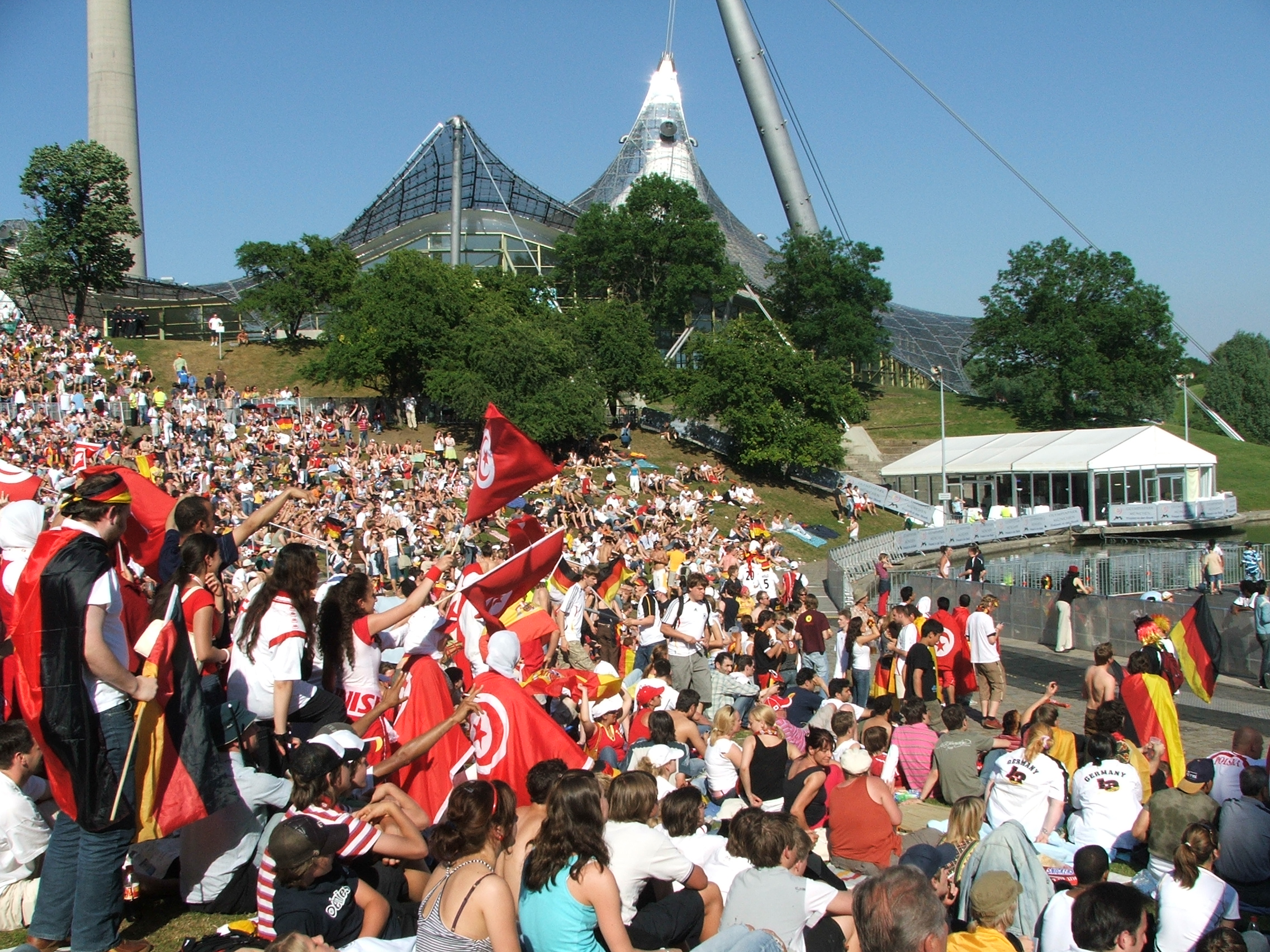 Tunisian football fans in the Olympic Park in Munich (Germany) during the Football World Championship 2006 in Germany.